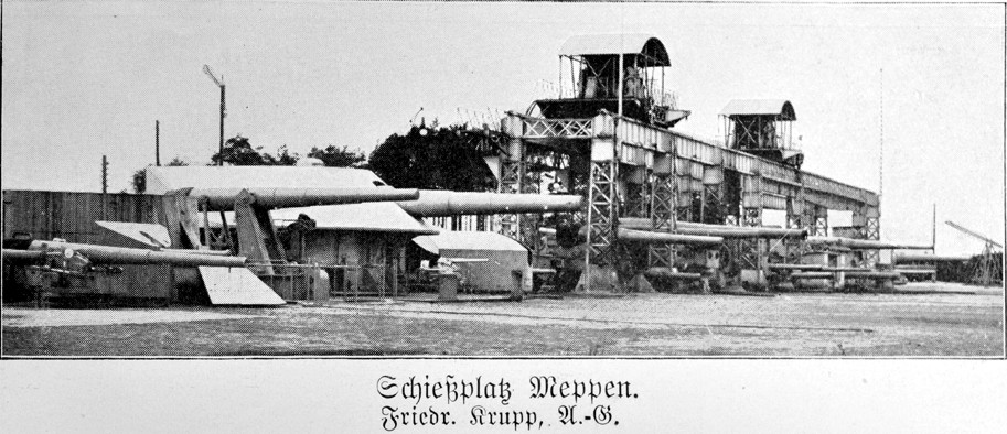 Shooting Meppen, guns of the Friedrich Krupp AG